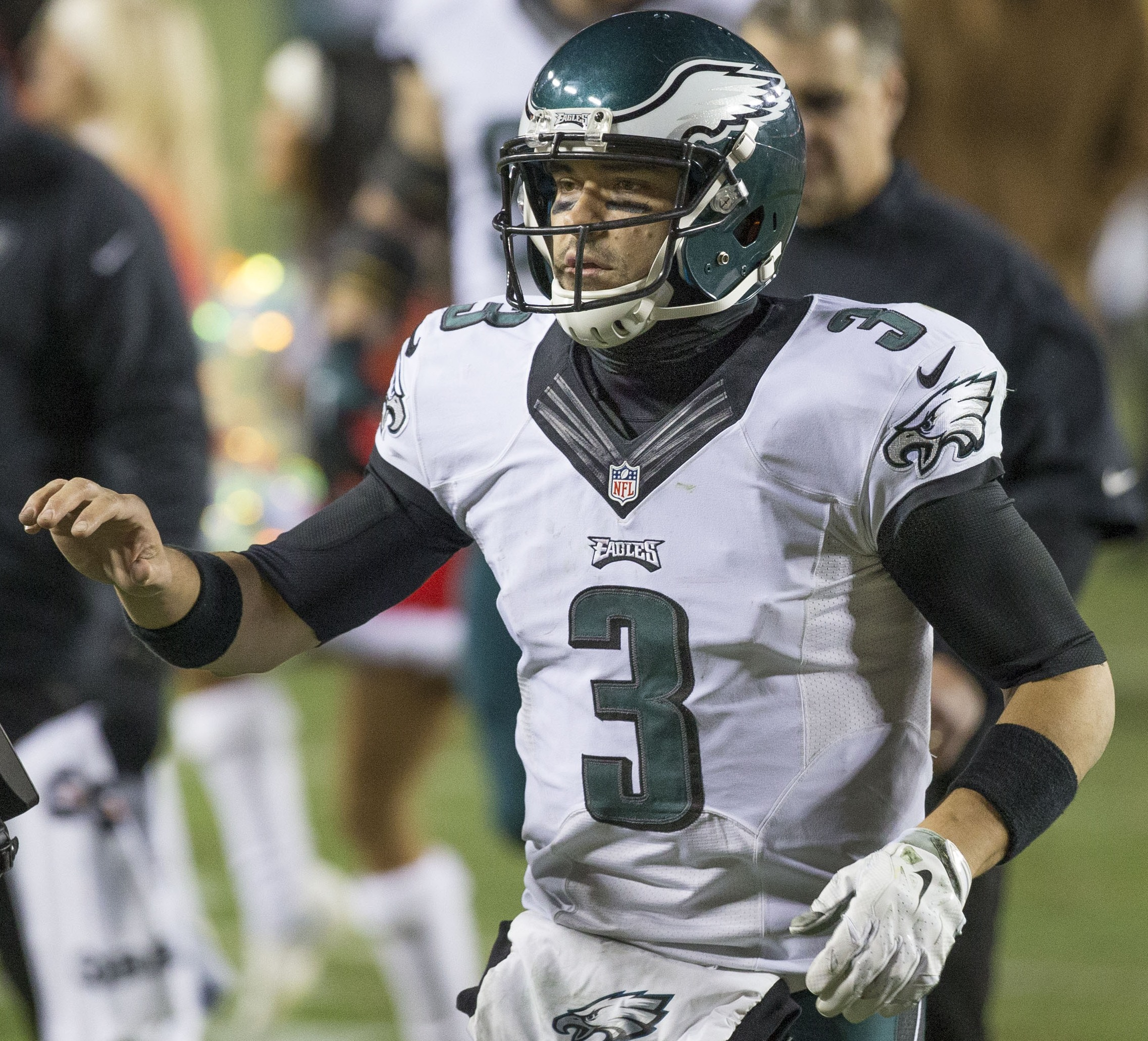 Philadelphia Eagles quarterback, Mark Sanchez, in a loss against the Washington Redskins on December 20, 2014.